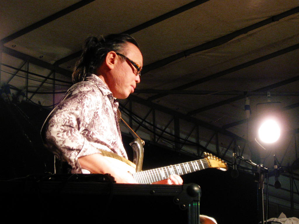 Nguyen Le